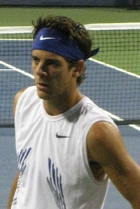 Juan Martin del Potro at the 2008 Legg Mason Tennis Classic (crop)